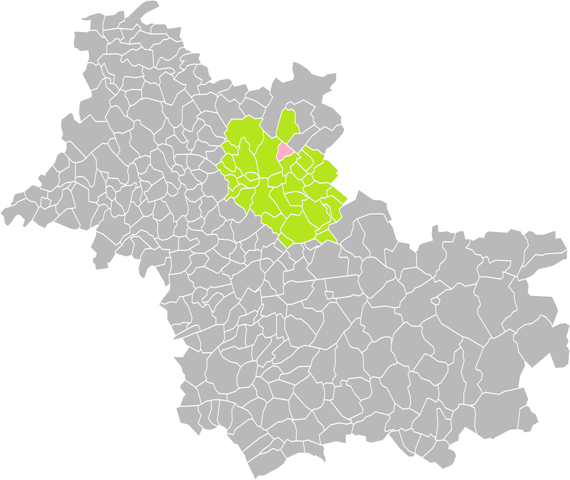 Location of the commune of Marchenoir in the Communauté de communes de la Beauce-Val de Loire (Loir-et-Cher)